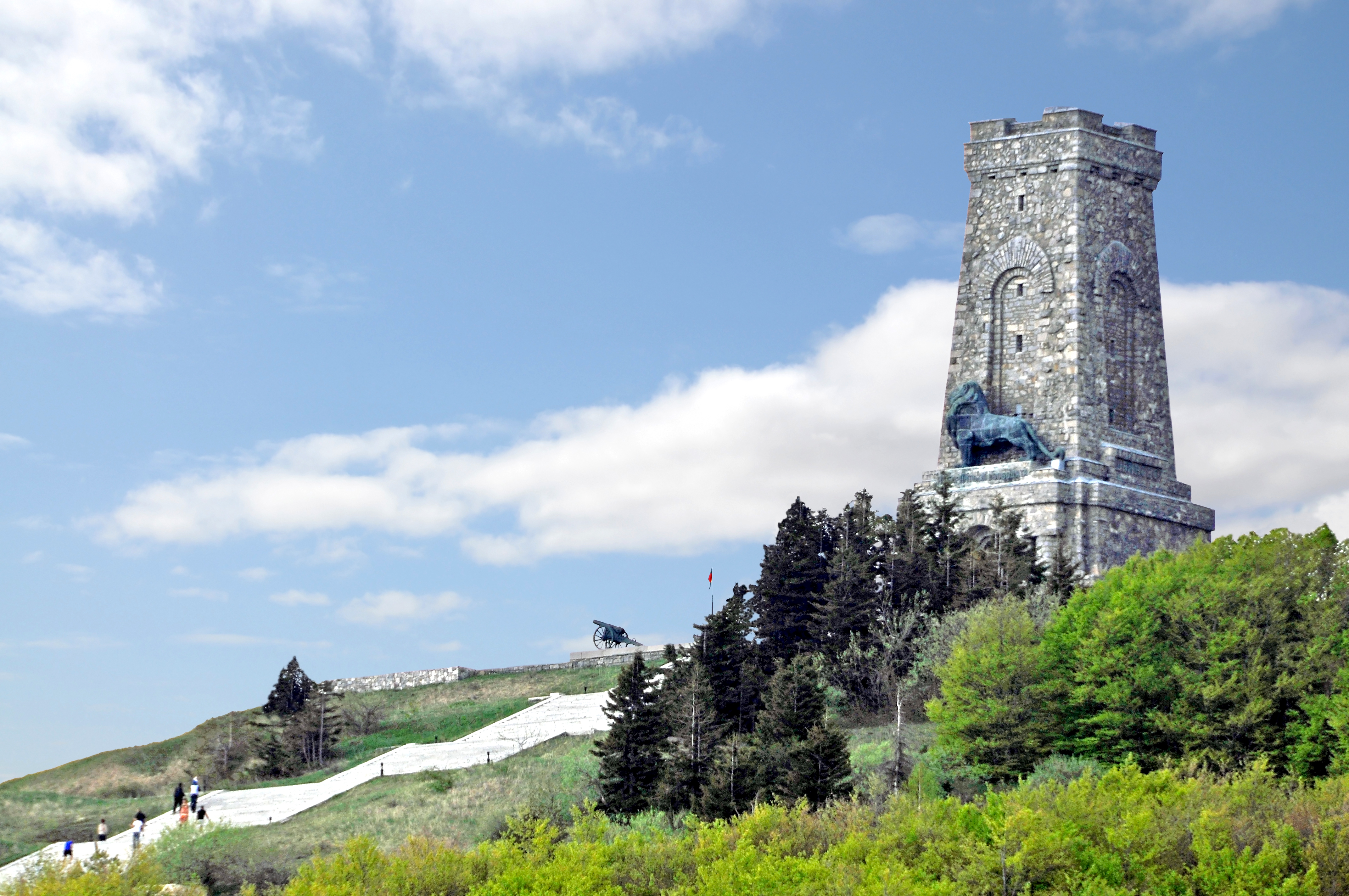 PLEASE, no multi invitations, glitters or self promotion in your comments, THEY WILL BE DELETED. My photos are FREE for anyone to use, just give me credit and it would be nice if you let me know, thanks - NONE OF MY PICTURES ARE HDR. We did not have time to go up to the monument. The Shipka Memorial is on Stoletov Peak, reached by a flight of steps or a short road. It is a memorial to those who died for the Liberation of Bulgaria during the Battles of Shipka Pass in the Russo-Turkish War of 1877-78. It was opened with a ceremony in 1934 and designed by architect Atanas Donkov and sculptor Aleksandar Andreev. The monument is a 31.5m (98ft) high stone tower in the form of a truncated pyramid. A giant bronze lion, 8m (26ft) long and 4m (13ft) high, stands above the entrance to the tower, and a figure of a woman represents the victory over the Ottoman forces. A marble sarcophagus housing some of the remains of the Russian and Bulgarian casualties is located on the first floor. There are four other floors where one can find replicas of Bulgarian military flags and other relics, and the top of the tower reveals a panorama of Shipka Peak and the surrounding area.